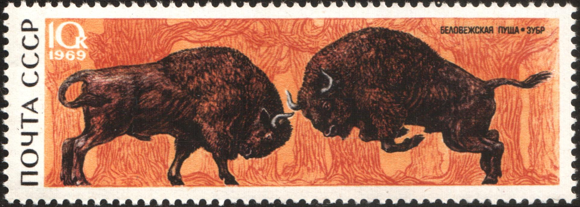 USSR stampː European Bisons. Seriesː Biosphere Reserve Białowieża Forest